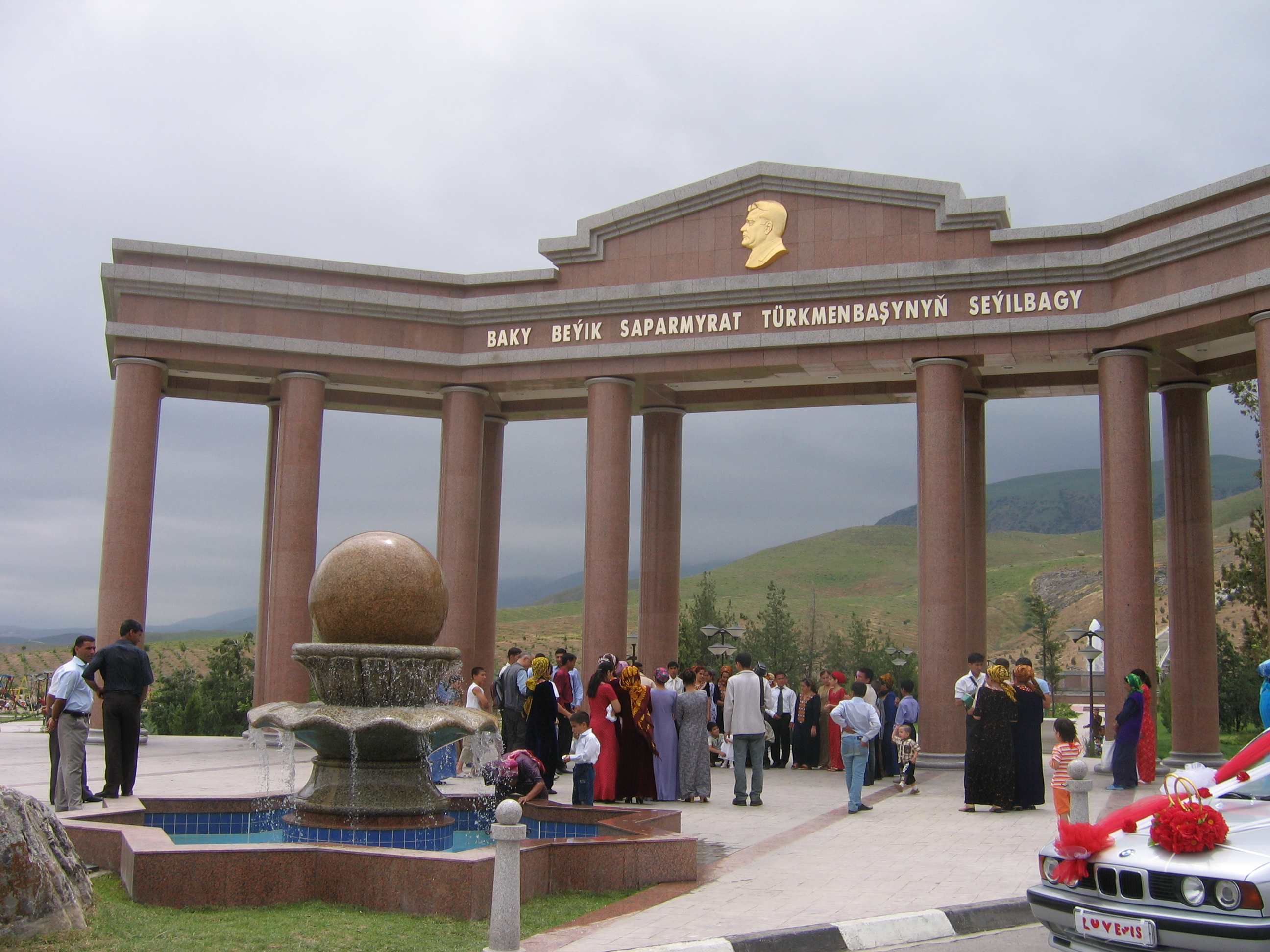 The walk of health starts here.